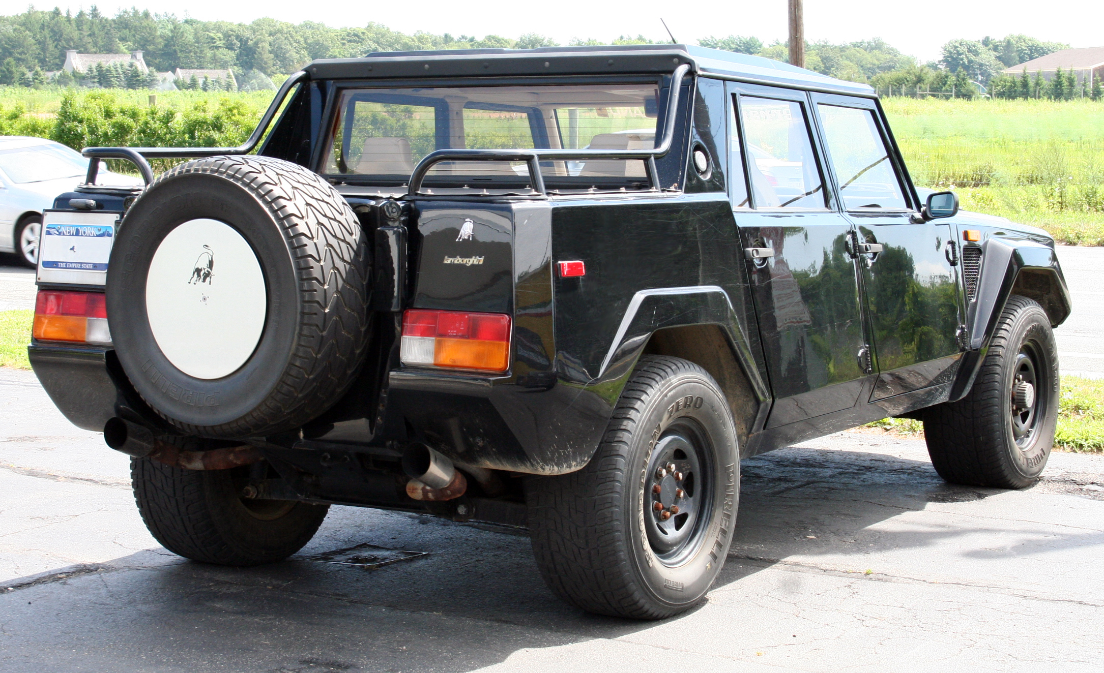 1989 Lamborghini LM 002 belonging to Ferrari of Long Island dealership in Southampton, NY